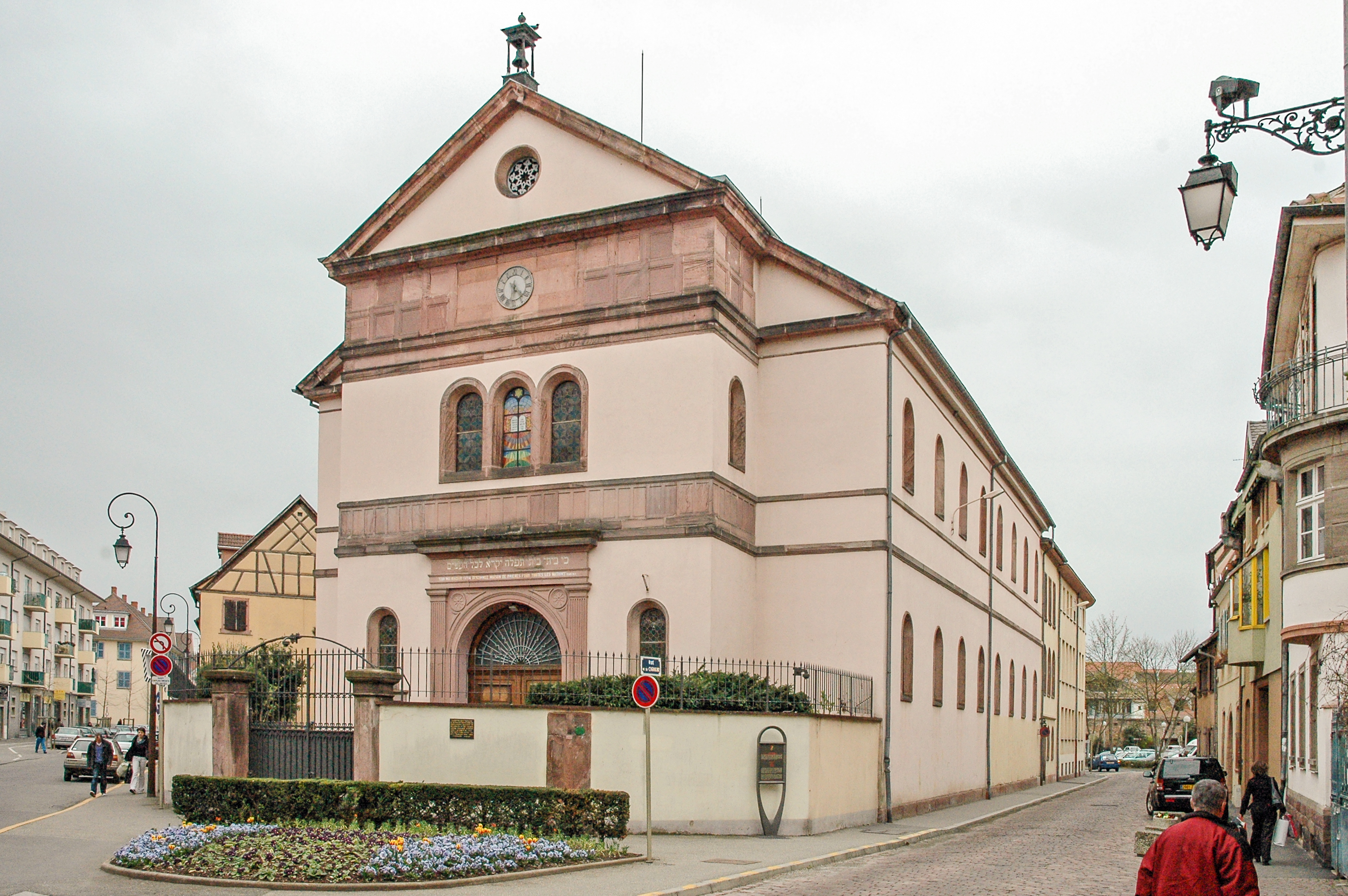 Synagogue (1843) of Colmar in 3 rue de la Cigogne in Colmar (Haut-Rhin, France). .